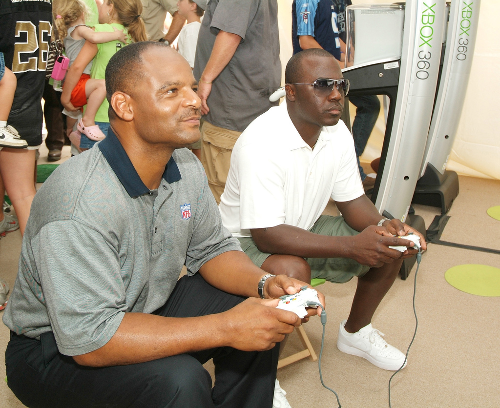 NFL greats Warren Moon, left and Marshall Faulk, play the newly released Madden NFL 07 game on Xbox360 during Maddenolidey in Madden, Miss. (pop. 74), Tuesday, August 22, 2006. The football stars then invited local attendees to play the game with them.(Photo by Greg Campbell)